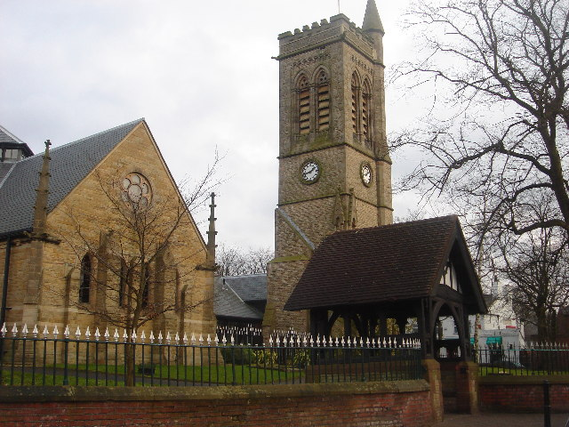 St Bartholomew's parish church, School Street, Westhoughton, Greater Manchester, England